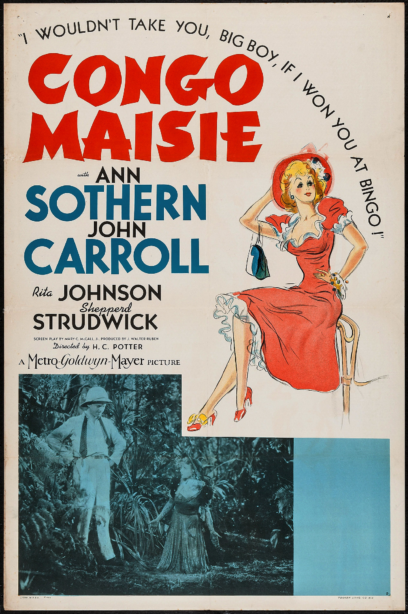 Poster for the 1940 film Congo Masie. The item has no copyright markings on it as can be seen in the links above. At bottom left is Litho in USA and some numbers which apparently relate to the print job of the poster. At lower right is Tooker Litho Co., NY, a "D" (poster version D) and some numbers which probably relate to the printing of the poster